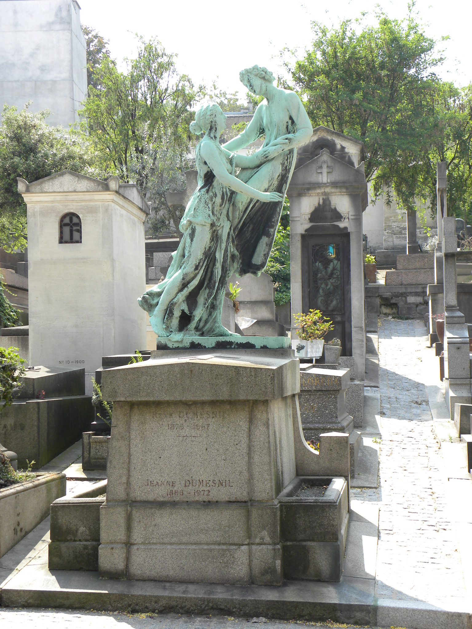 The grave of René and Jeanne Dusmesnil